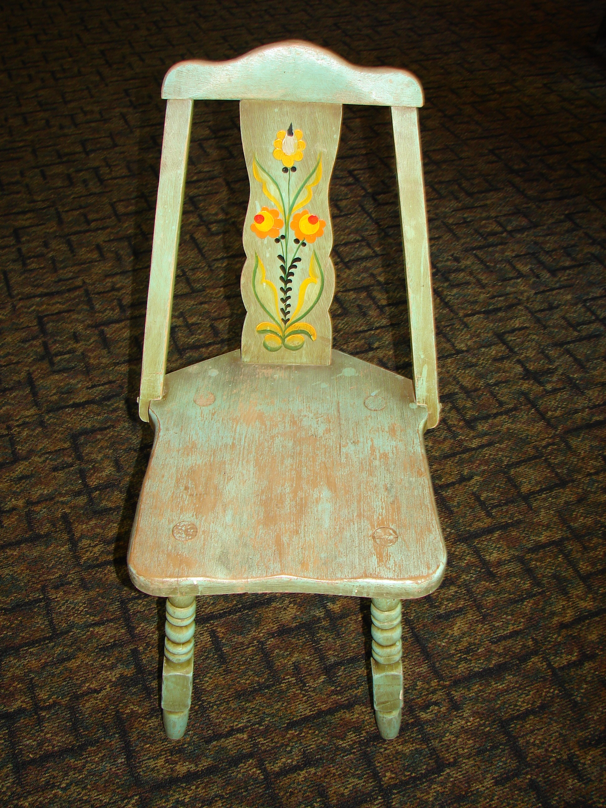 One of several original Mason Monterey A-frame Dining chairs at the Oregon Caves' Chateau, this one is the only one that survived the flood of 1964 and so the finish is the original finish. Original finish color is Spanish Green with polychrome splat in floral motif.